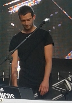 Marvin Jouno photographed in Montréal , Québec, Canada at the Francos de Montréal 2018.